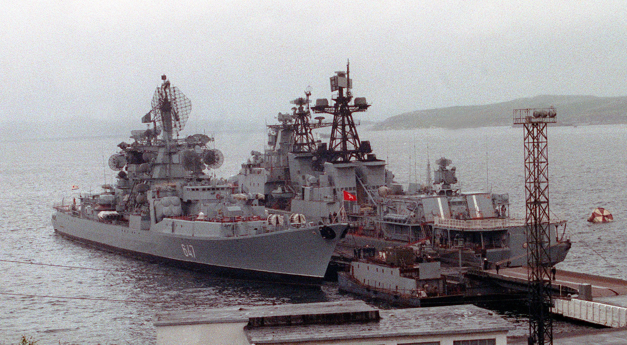 A Kresta II guided missile cruiser and a Udaloy class destroyer are moored to a pier during a port call by two American ships, the guided missile cruiser USS YORKTWON (CG-48) and the destroyer USS O'BANNON (DD-987), which are visitng the Severomorsk as part of an ongoing exchange between the navies of the United States and the Commonwealth of Independent States.